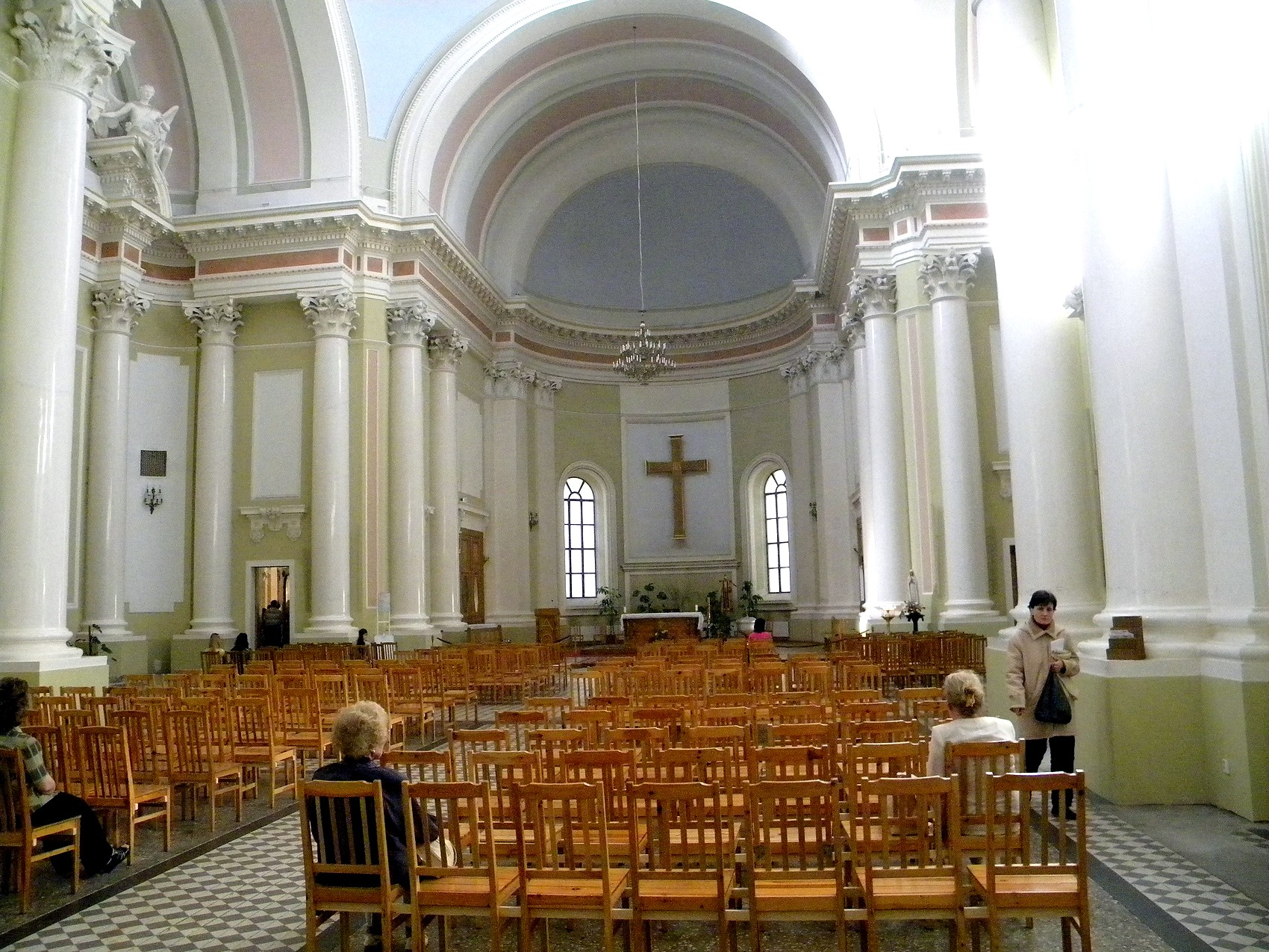 Interior of the St.Catherine Church in St.Petersburg, Russia.